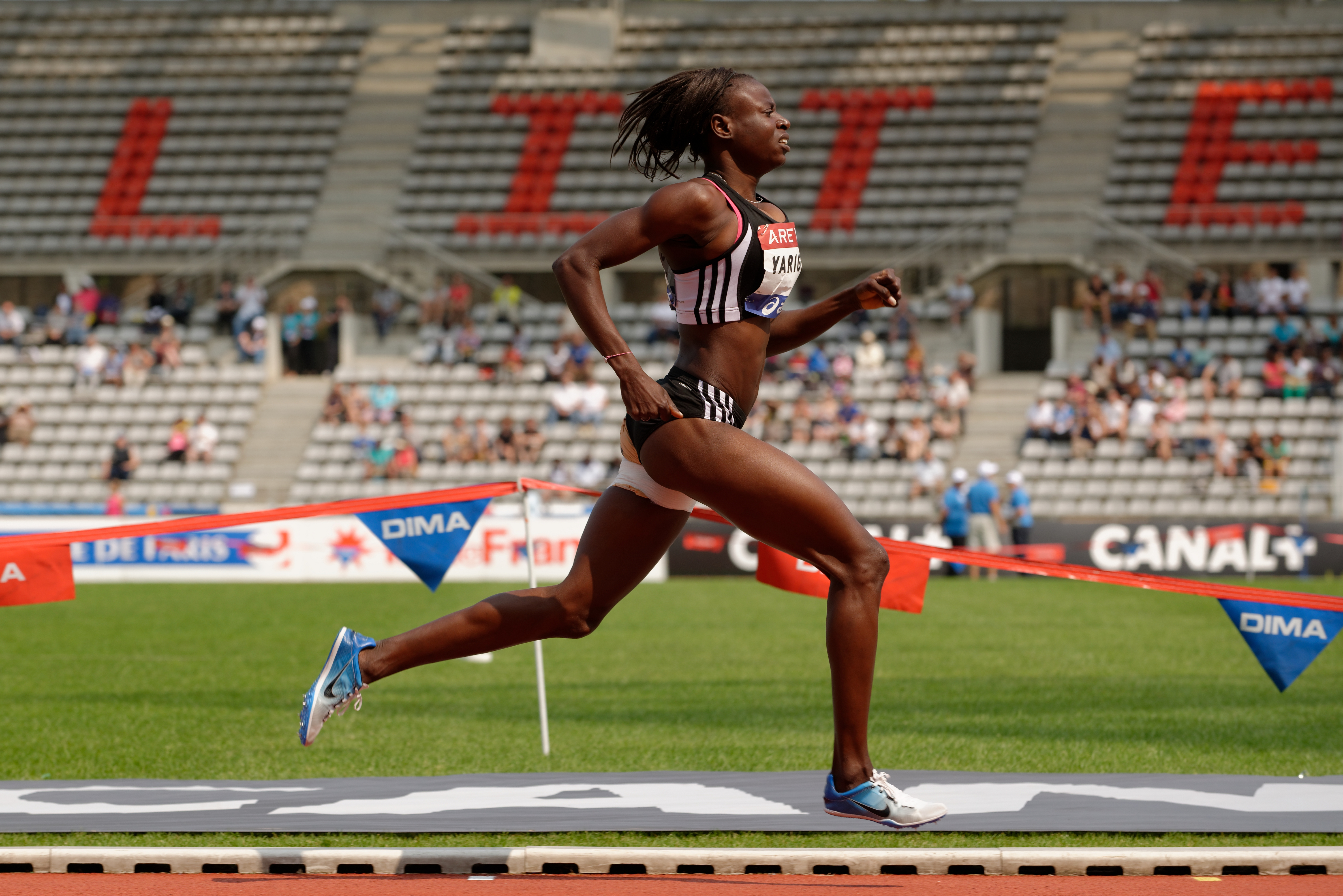 Noélie Yarigo runs to take the third place in the 800-metre race in 2′06′′03 during the French Athletics Championships 2013 at Stade Charléty in Paris, 13 July 2013.